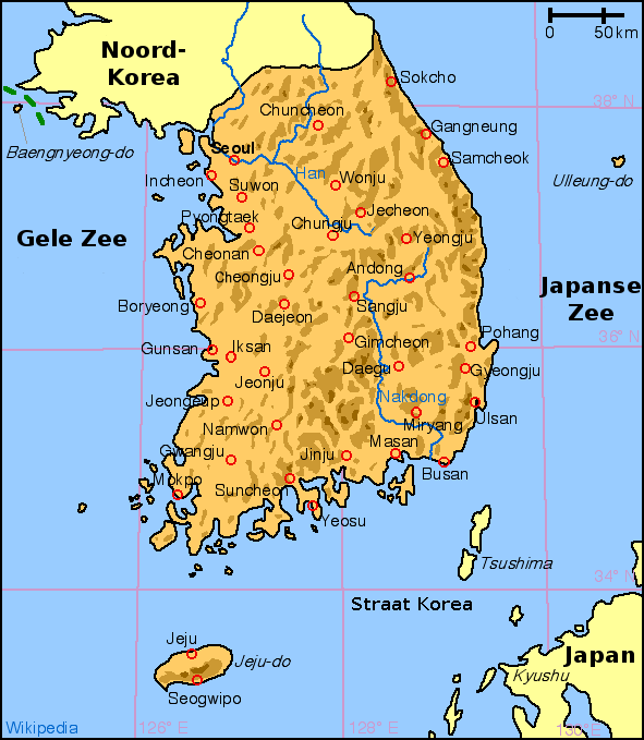 Map of South Korea in Dutch